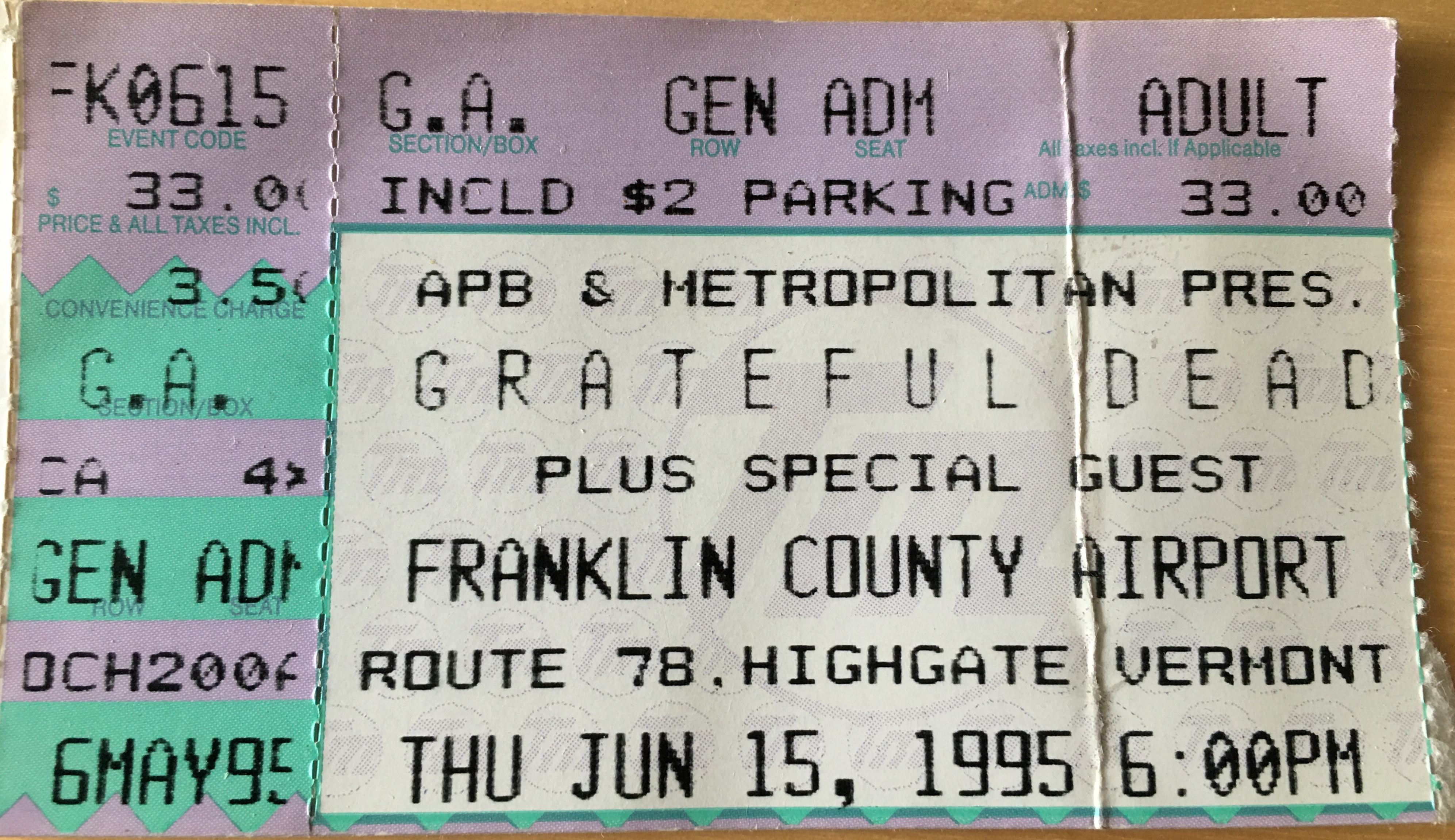 Photograph of a concert ticket for The Grateful Dead at Franklin County Airport in Highgate, Vermont, on Thursday, June 15, 1995